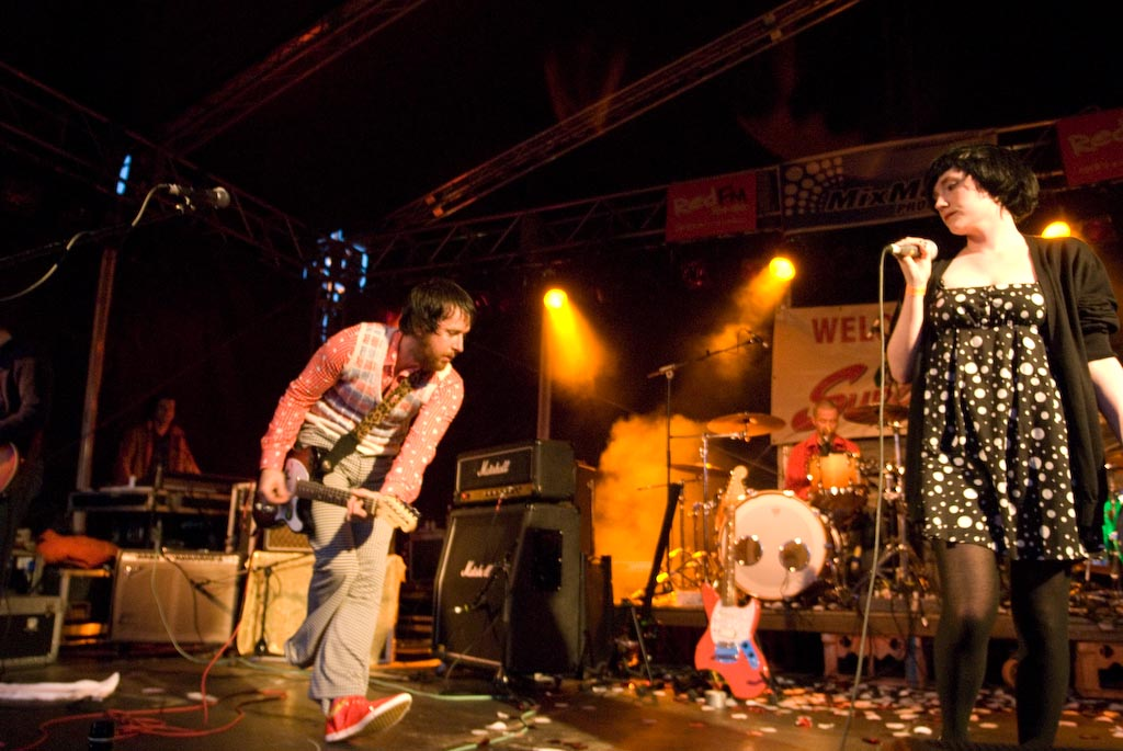 Mitchelstown Indie Pendence Festival 2007 August 3 - 6 Mitchelstown Co. Cork Ireland